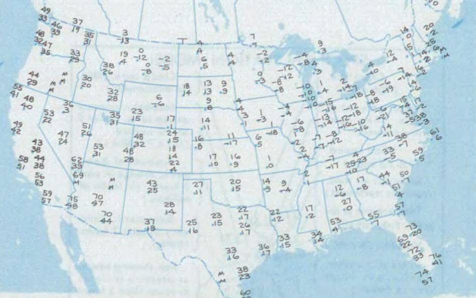 A map of the United States on January 21, 1985, detailing unusually cold temperatures for various cities as the January 1985 Arctic outbreak was in full effect. Numbers on the top depict the day's high temperatures in degrees Fahrenheit, while the numbers on the bottom denote the lowest.